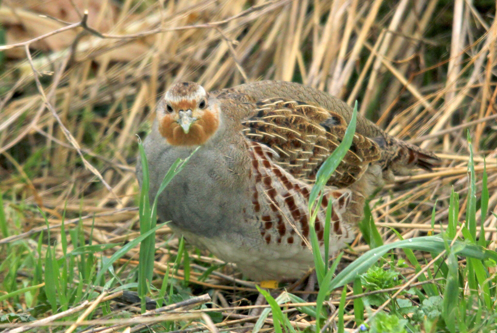 Grey Partridge Perdix perdix, at Turvey, Dublin, Ireland